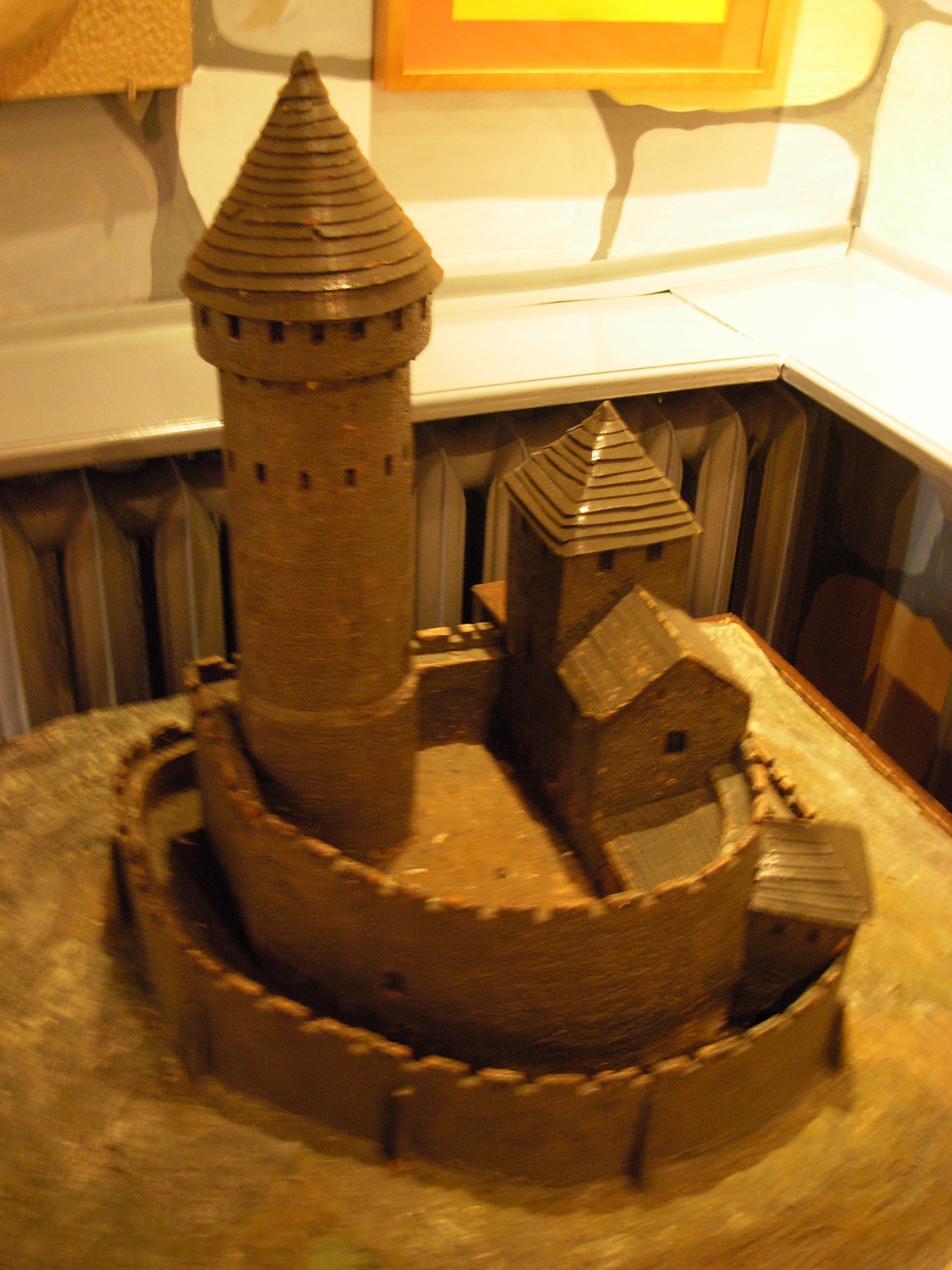 Items from Muzeum Zagłębia, in Castle in Będzin, Poland. Model of the Castle.